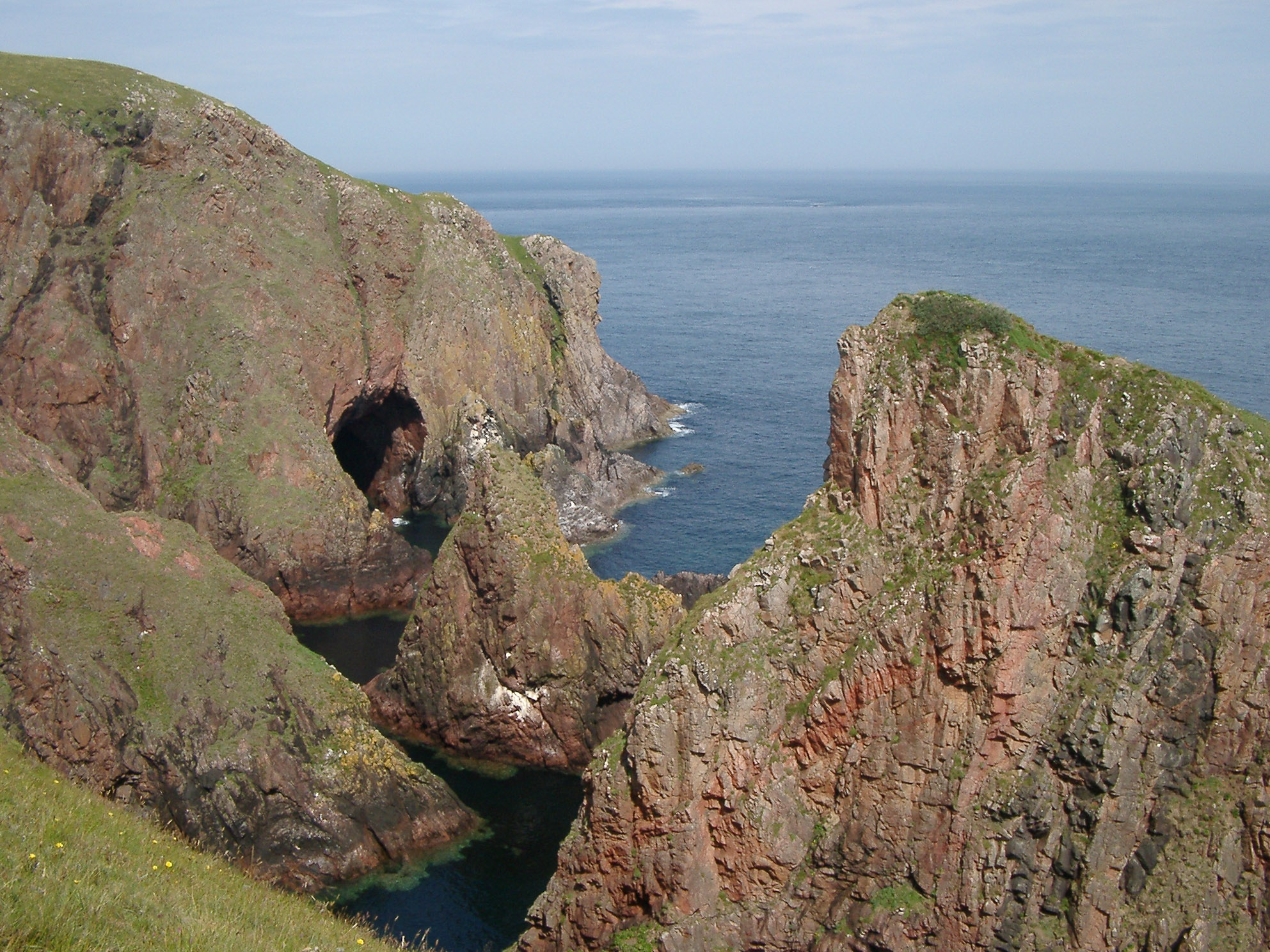 Cliffs near Cape Wrath. Complex cliffs give an idea of the force of some of the storms up there. Small white areas are nesting birds (or evidence of them...)